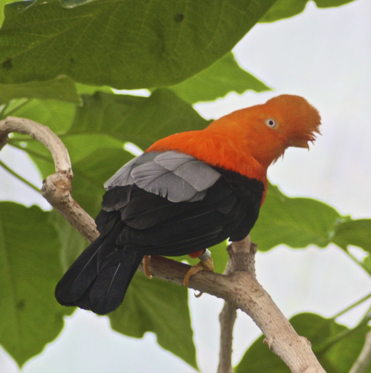 Rupicola peruviana Andean Cock-of-the-Rock